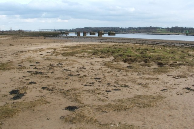 Milton Island. The photograph was taken from the area that is known as Milton Island, although its appearance at low tide, as shown here, is as a number of separate rounded grassy areas, such as the one visible in the foreground. In Roy's Military Survey (1740s-50s), it is called Green Inch, a name that does seem quite appropriate. For the various structures that are visible in the background, see 1805668.